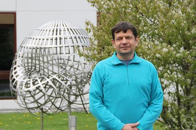 Description at MFO: On the Photo: Solymosi, József — Occasion: Discrete Geometry — Location: Oberwolfach — Author: Lein, Petra — Source: MFO — Year: 2017 — Copyright: MFO — Photo ID: 21679